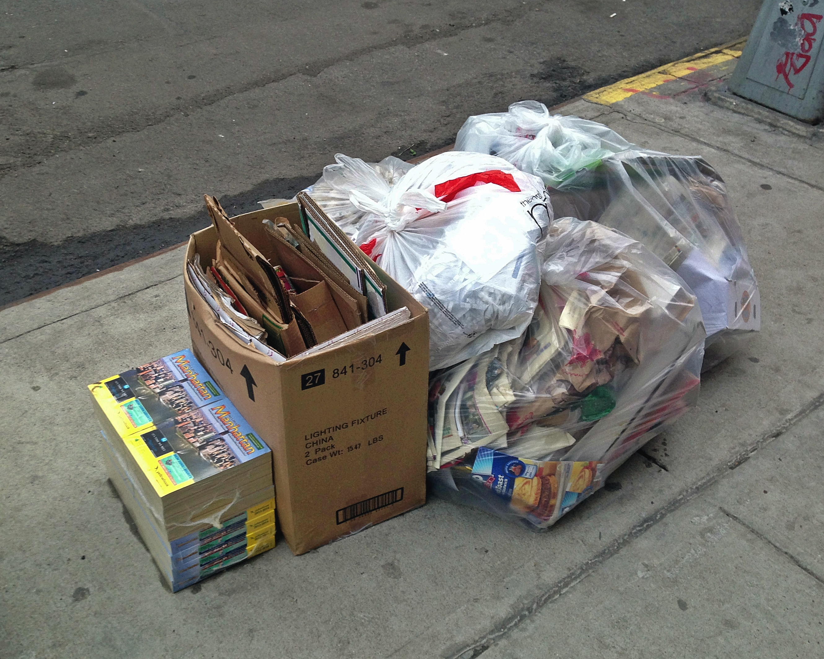 Recently delivered new 2013-2014 Manhattan phone books put in the trash unopened.